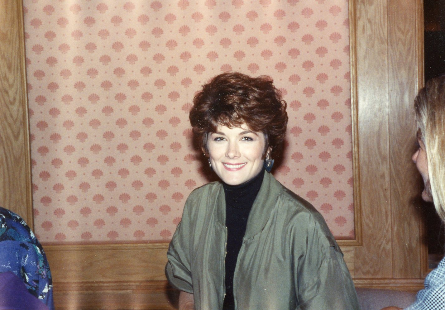 Actress Terri Treas at a Star Trek Convention in 1991.